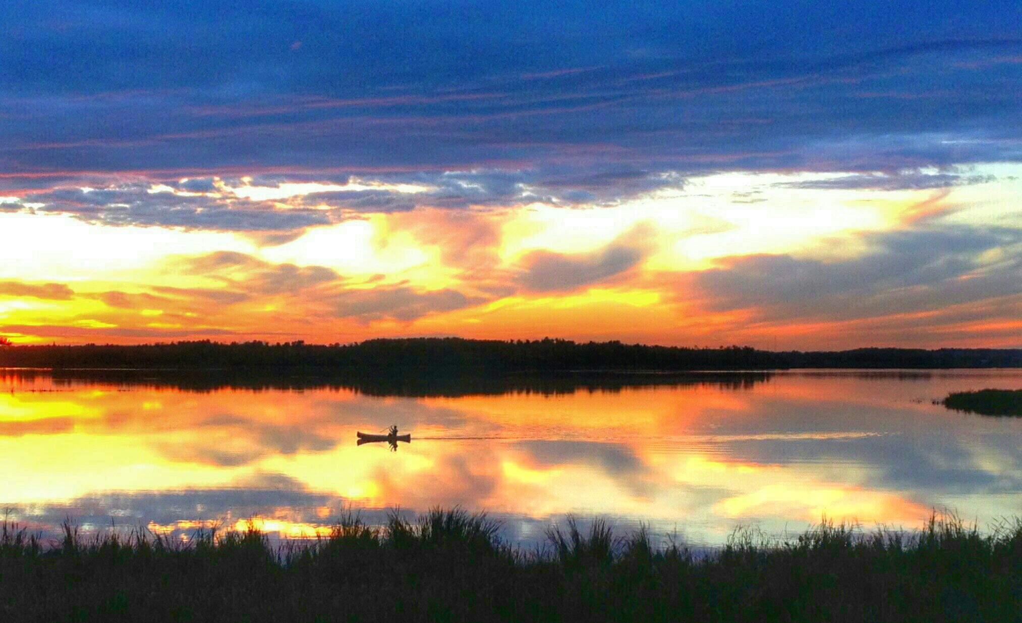 Antler Lake